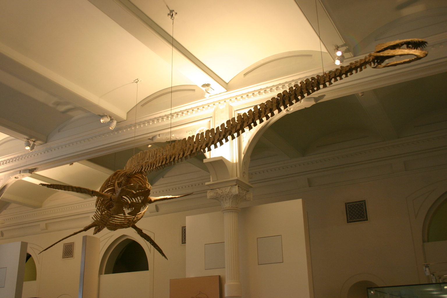 Thalassomedon in the American Museum of Natural History Visit my blog at